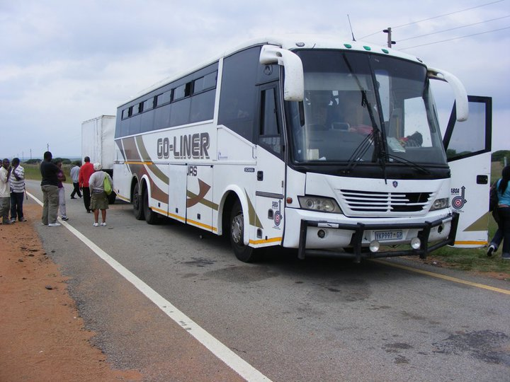 bus on the way from Lilongwe to Johannesburg.